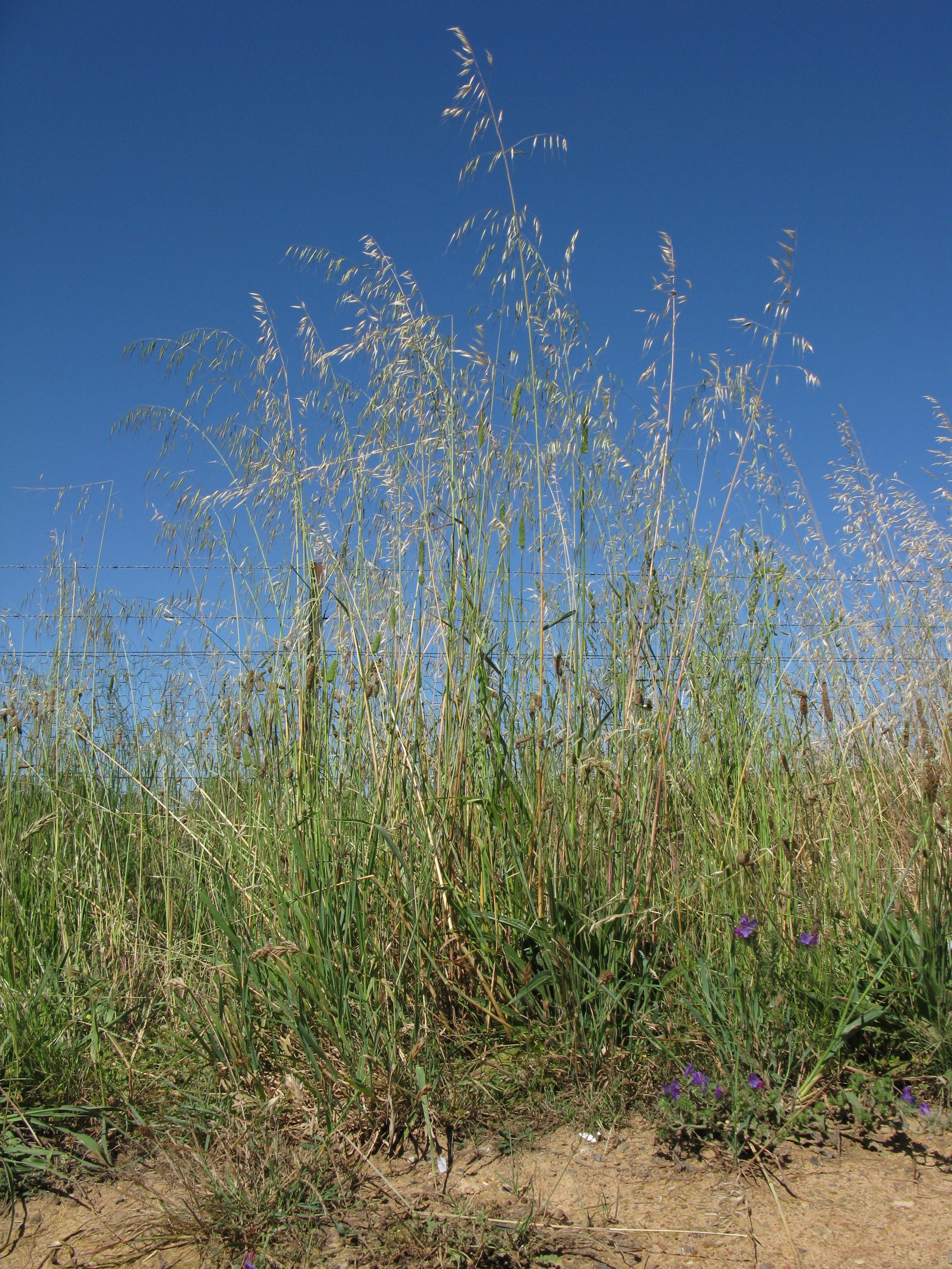 An indicator of disturbance.